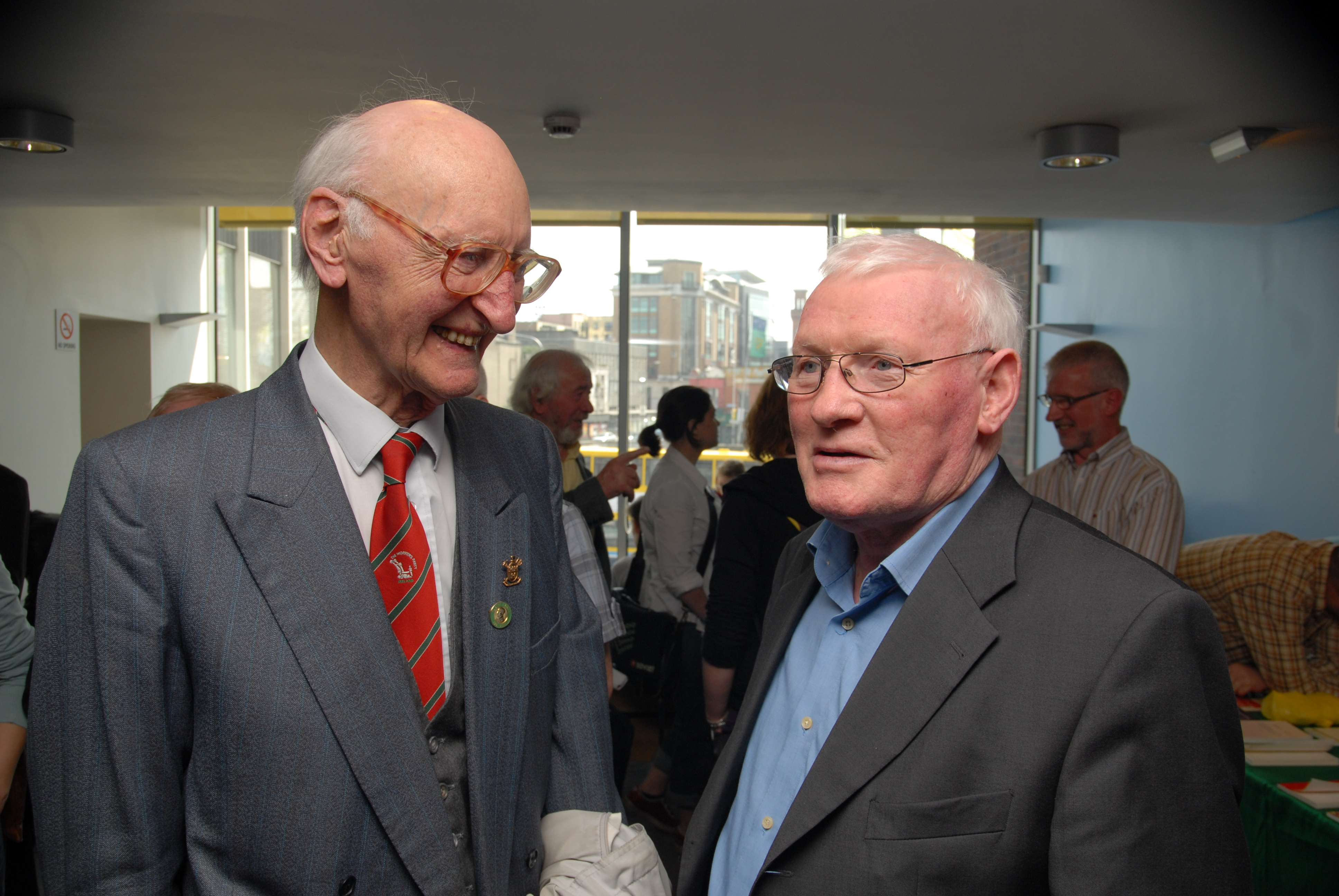 Tomás Mac Giolla, former Dublin West TD and Lord Mayor of Dublin, President of the Workers Party of Ireland 1962-1988 (left) with Seán Garland, President of the Workers Party 1998-2008 at the party's annual conference / Árd Fheis in Dublin 17.05.08. Photo by author, sourced by author. Template:Mac Giolla; Template:Sean Garland